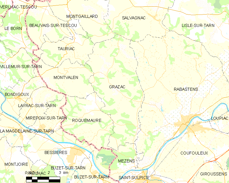 Map of French municipality Grazac